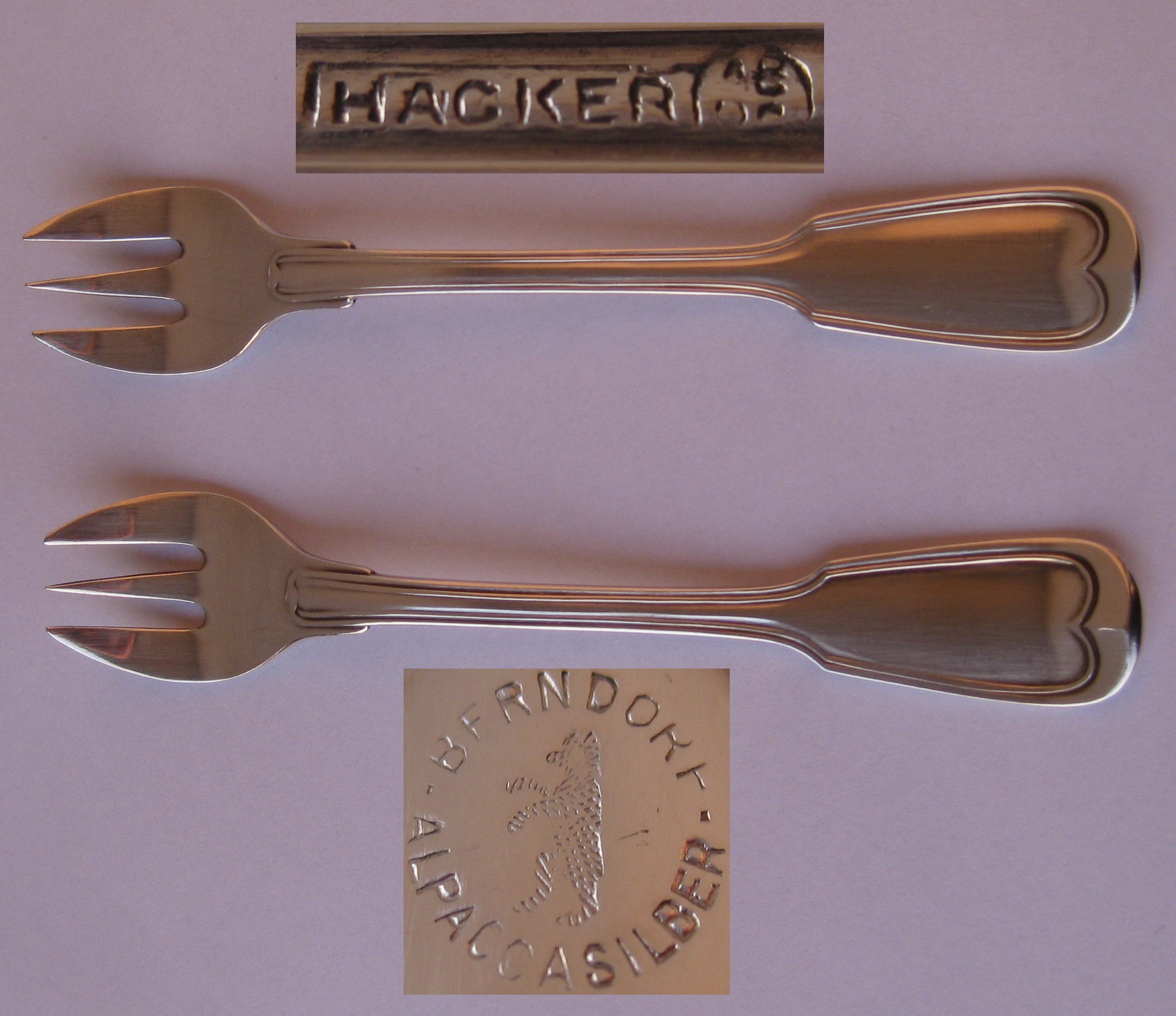 Comparison of two oyster forks with "Augsburger Faden" pattern; below: Berndorf electro-plate manufactory, Austria; top: Metal goods factory Moritz Hacker, Vienna, Austria.